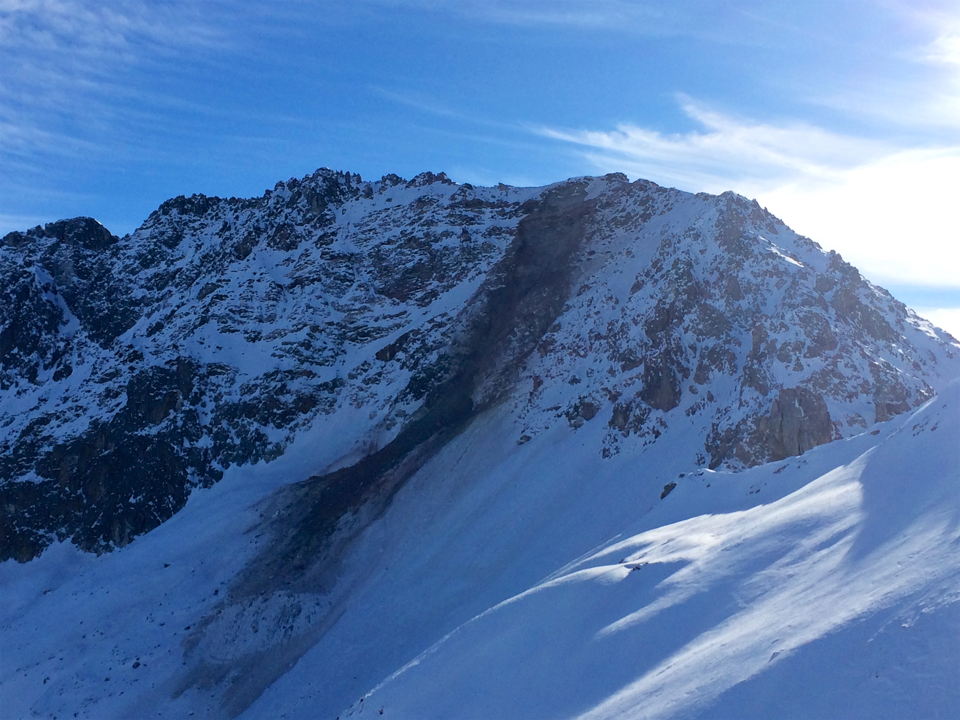 Rockslide of 29 November 2016 at north face of Parpaner Weisshorn, Urden Valley, Tschiertschen near Arosa/Switzerland